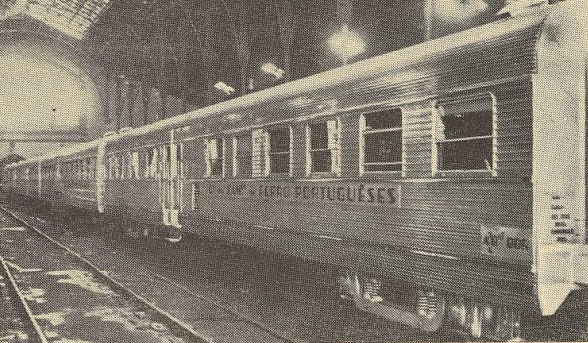 Exhibition of the new Portuguese Railways Company carriages, at the Lisboa Rossio Railway Station, in July 1940. These carriages were built by the american Budd Company. This picture was originally published on the Gazeta dos Caminhos de Ferro magazine No. 1263, of the 1st August 1940, and scanned by the Hemeroteca Municipal de Lisboa.